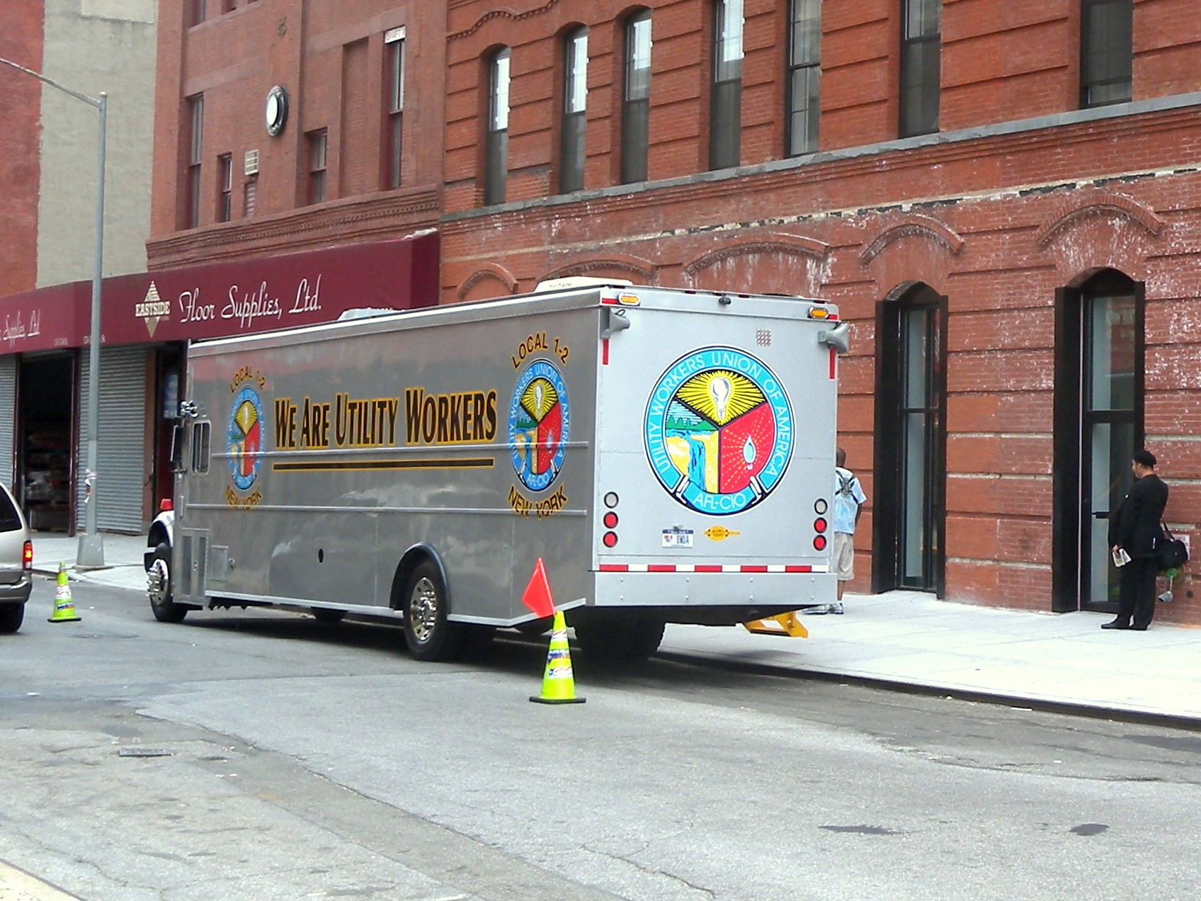 Looking southeast along E124th Street at truck of UWUA on a mostly cloudy midday.